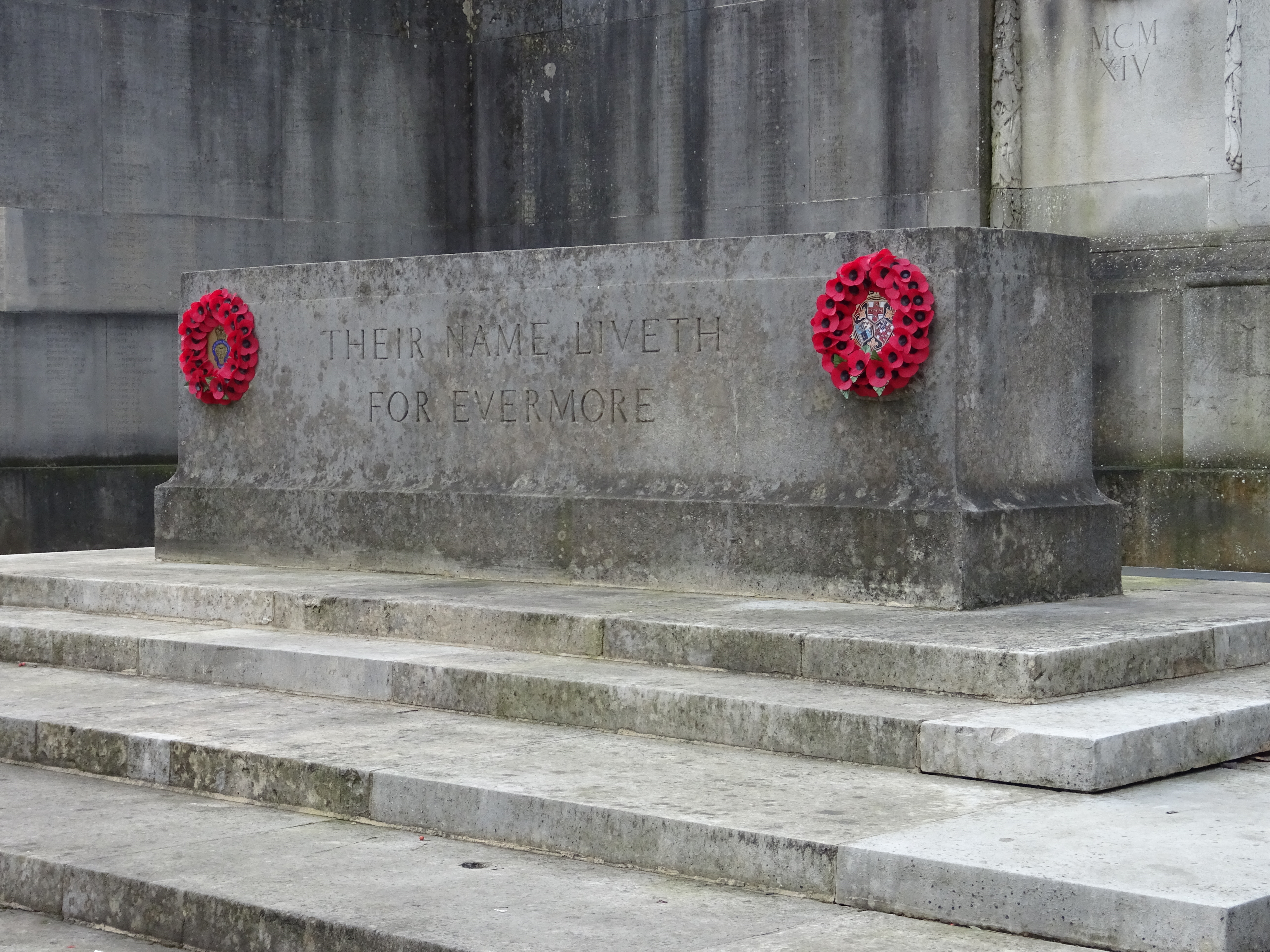 North Eastern Railway War Memorial in York - close-up of Stone of Remembrance